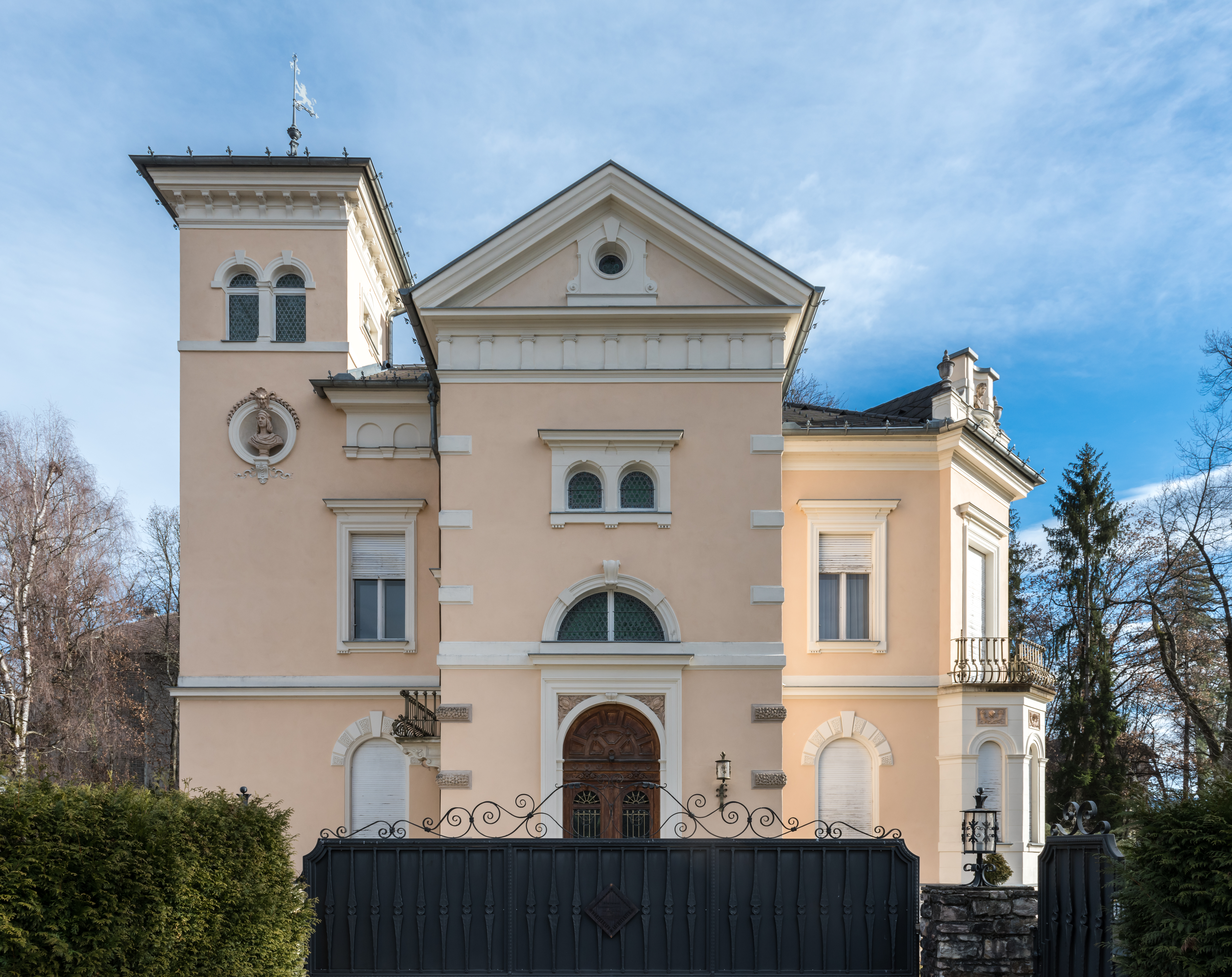 Western view of Villa Venezia on Johannaweg #1, municipality Pörtschach am Wörther See, district Klagenfurt Land, Carinthia, Austria, EU